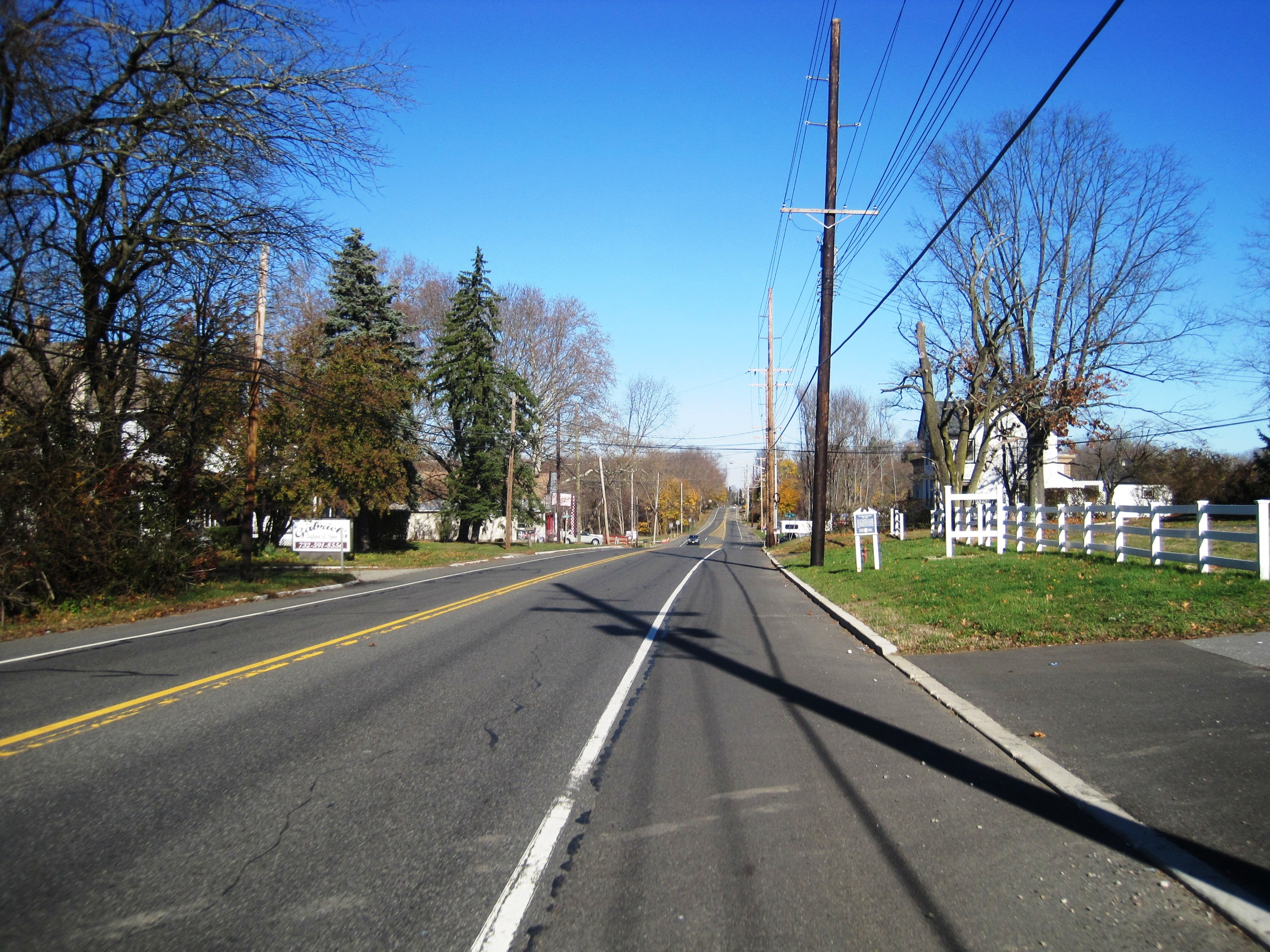 Photo of Morganville, New Jersey, an unincorporated community within Marlboro Township, Monmouth County. Photo taken along northbound New Jersey Route 79 at Lukas Boulevard.